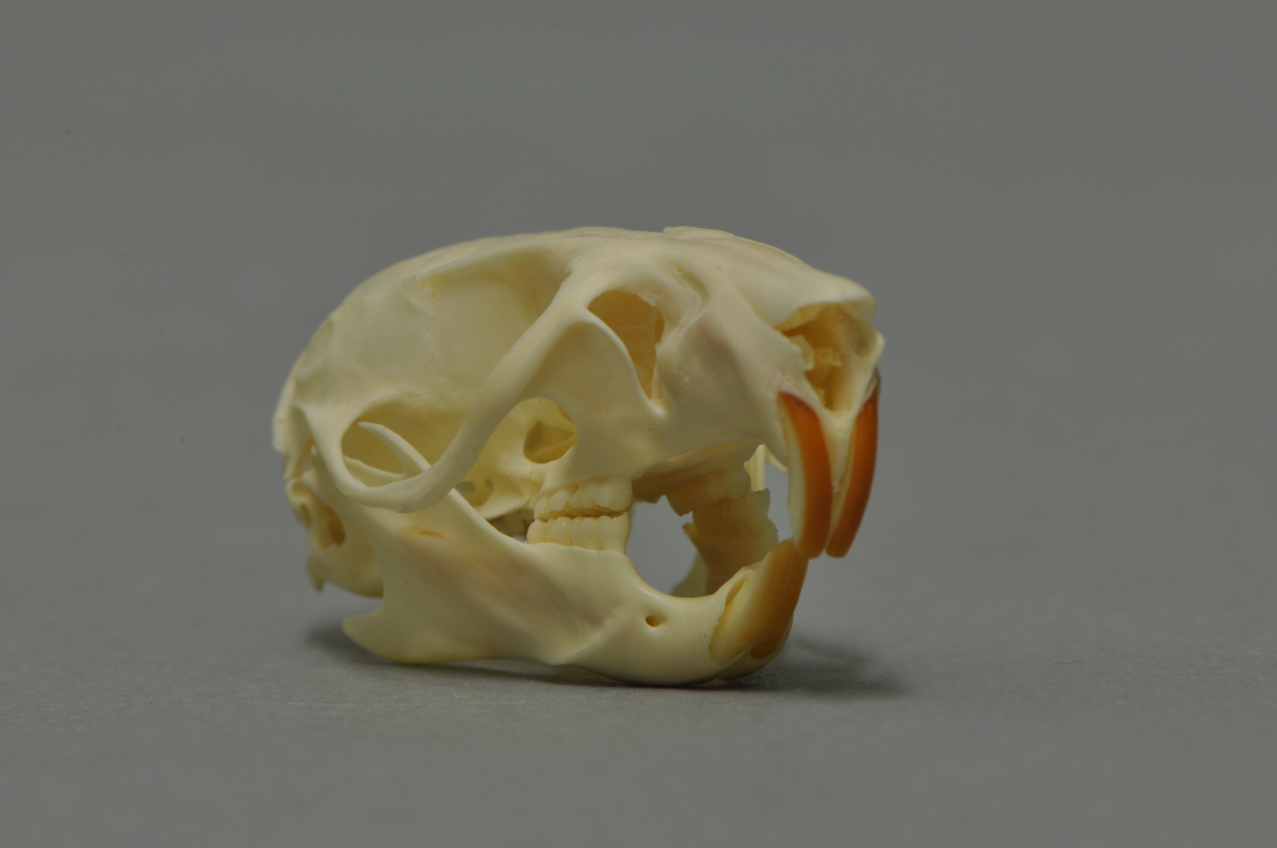 black rat Rattus rattus , skull, Coll. Museum Wiesbaden